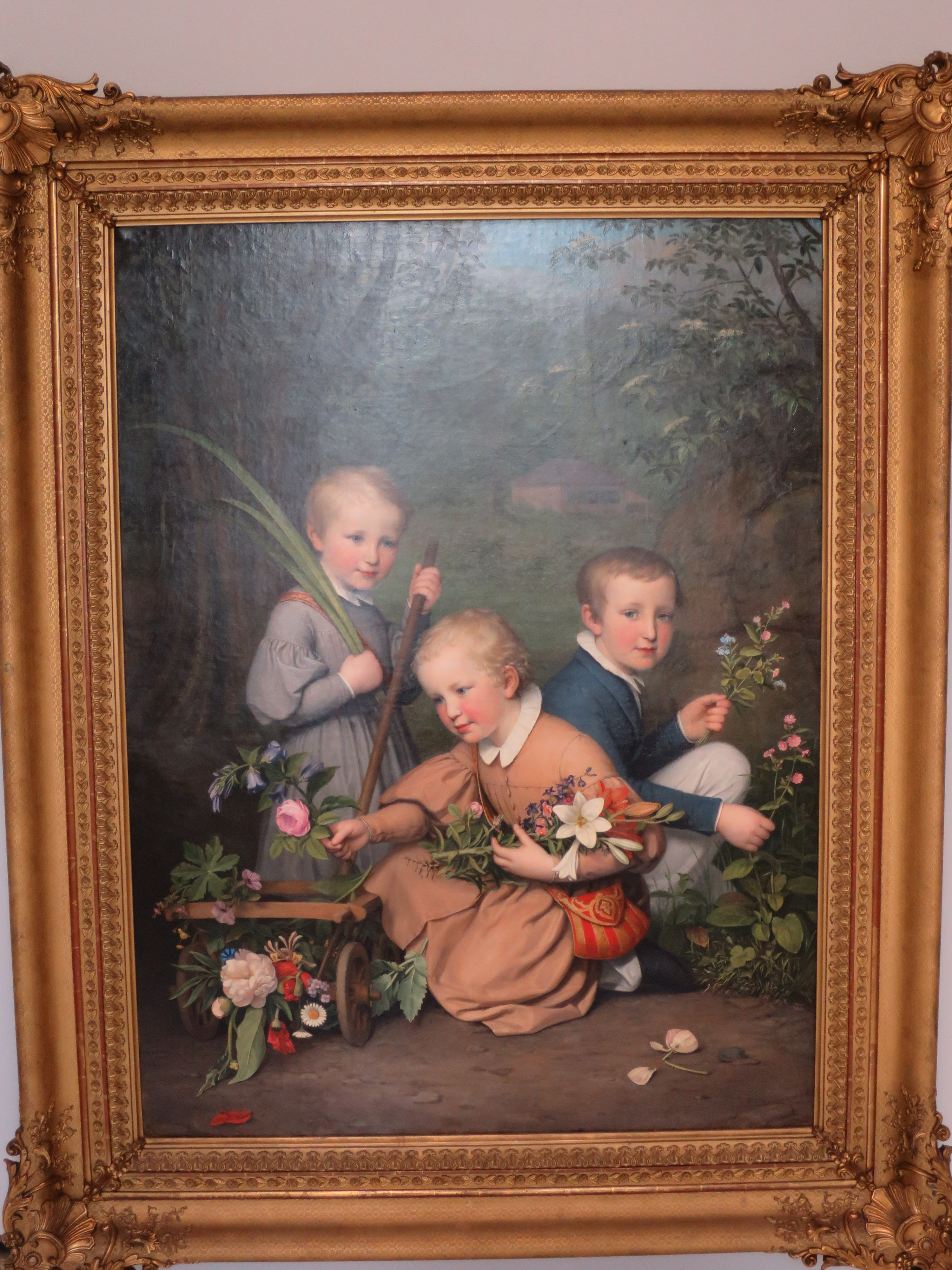 Die drei Prinzen von Hanau (The three Princes of Hanau) by August Embde (1839) - left to right: Wilhelm, Moritz Philipp Heinrich, Friedrich Wilhelm